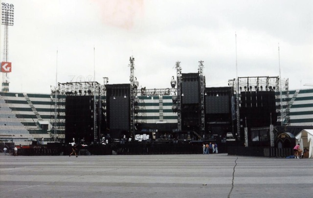 Picture of the Zoo TV Tour stage prior to the 15 May 1993 U2 concert in Lisbon, Portugal